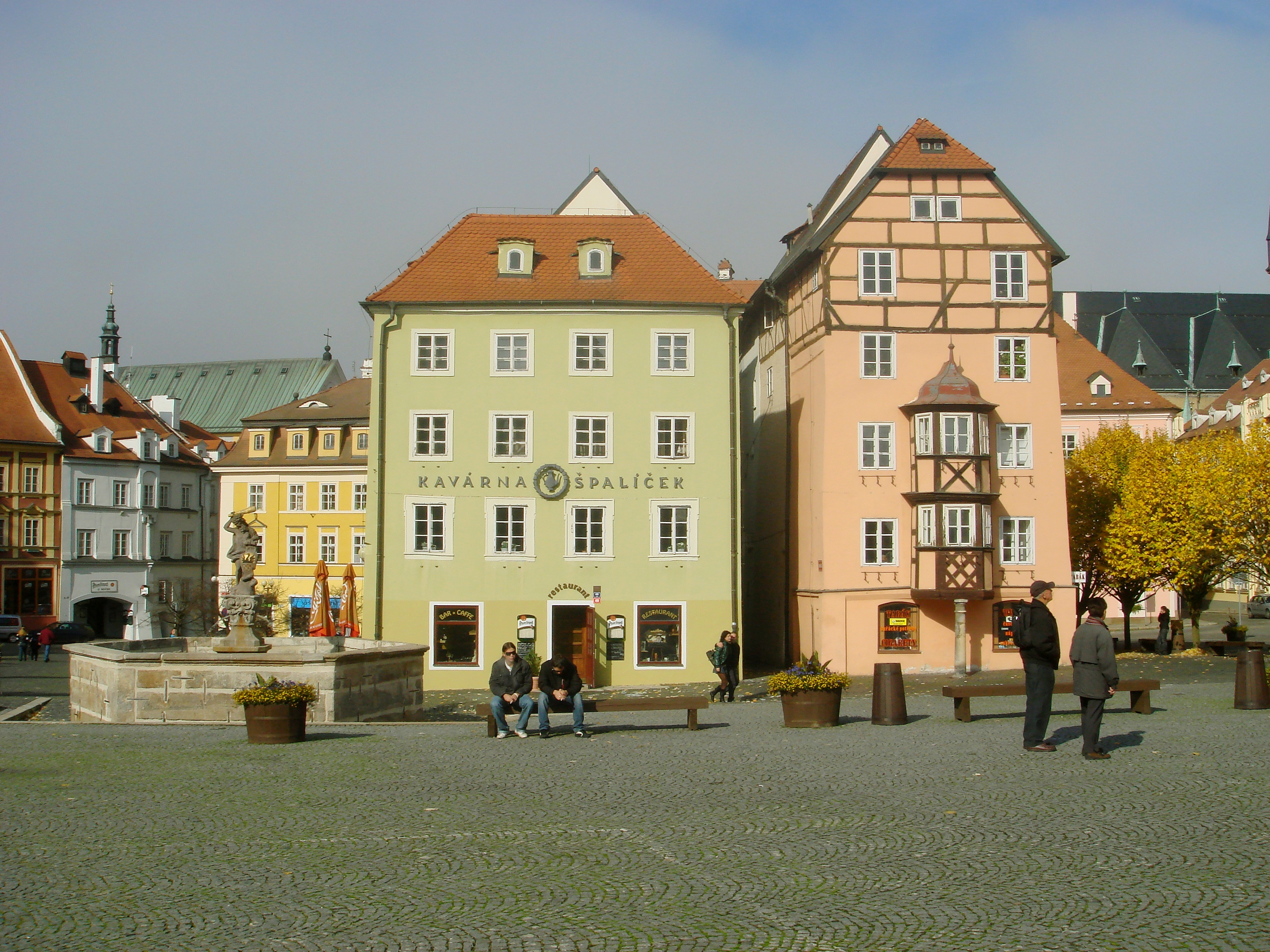 Špalíček - a complex of eleven medieval houses on the Krále Jiřího z Poděbrad Square in Cheb (Karlovy Vary Region, Czech Republic).